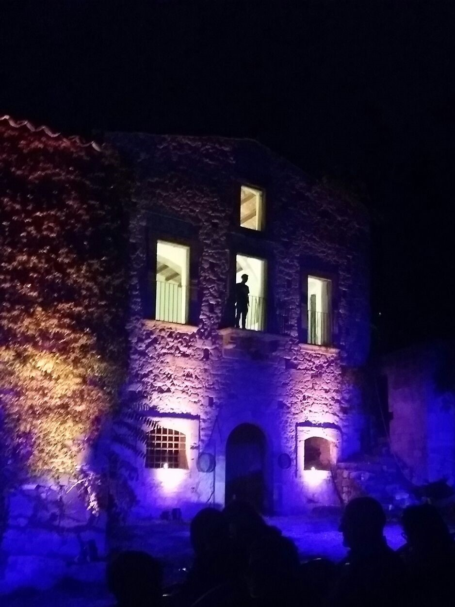 La lupa 2017 2